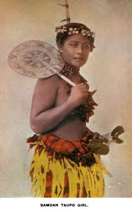 Samoa taupou girl 1896